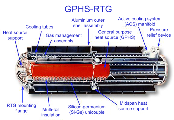 A cutdrawing of an GPHS-RTG that are used for Galileo, Ulysses, Cassini-Huygens and New Horizons space probes